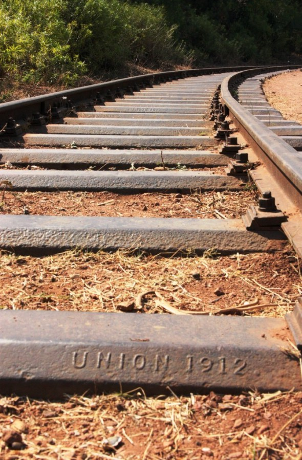 1912 railway sleeper in 2012 railway line at Kigoma, Tanzania